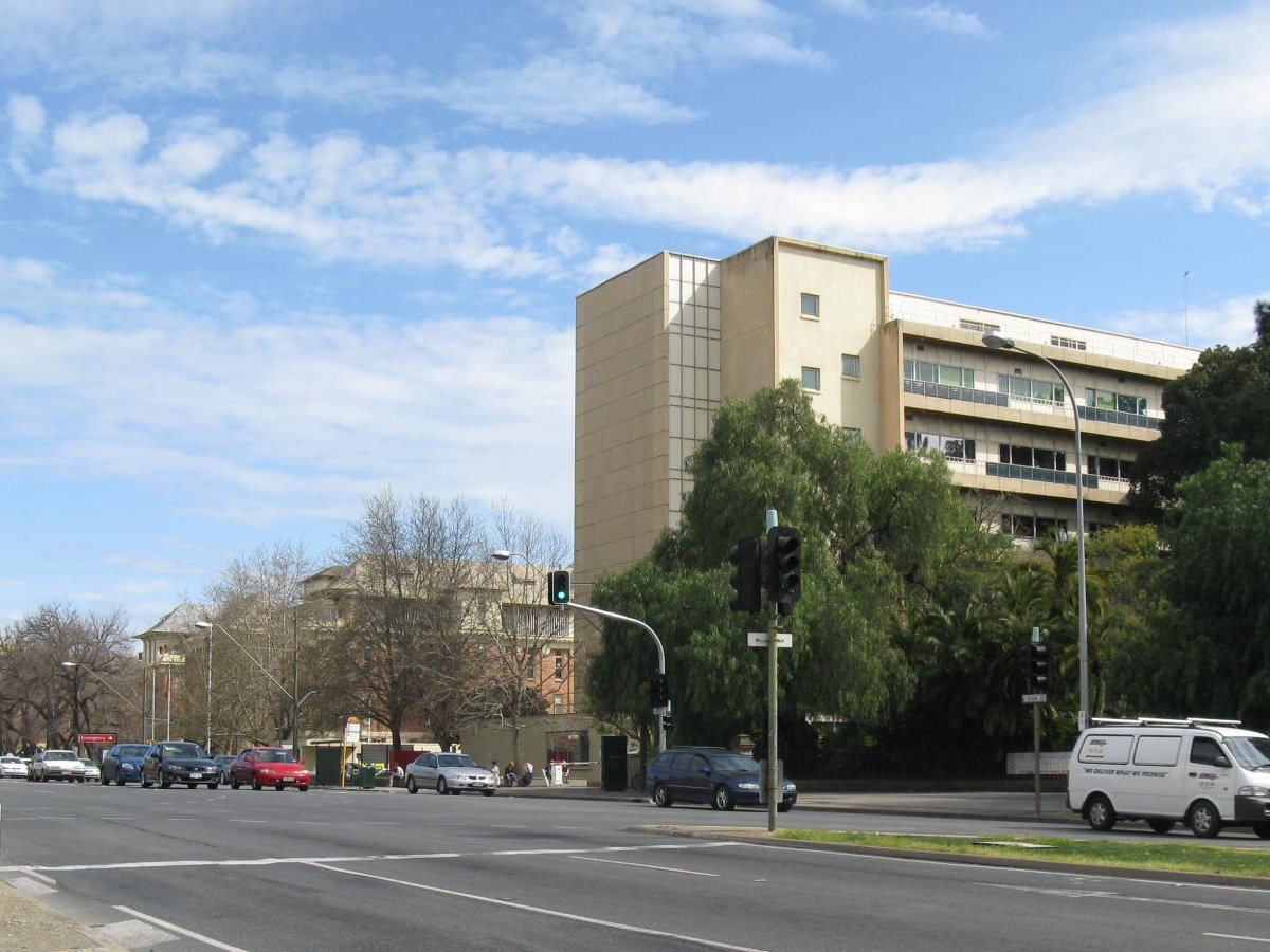 Royal Adelaide Hospital, North Terrace, Winter 2008.